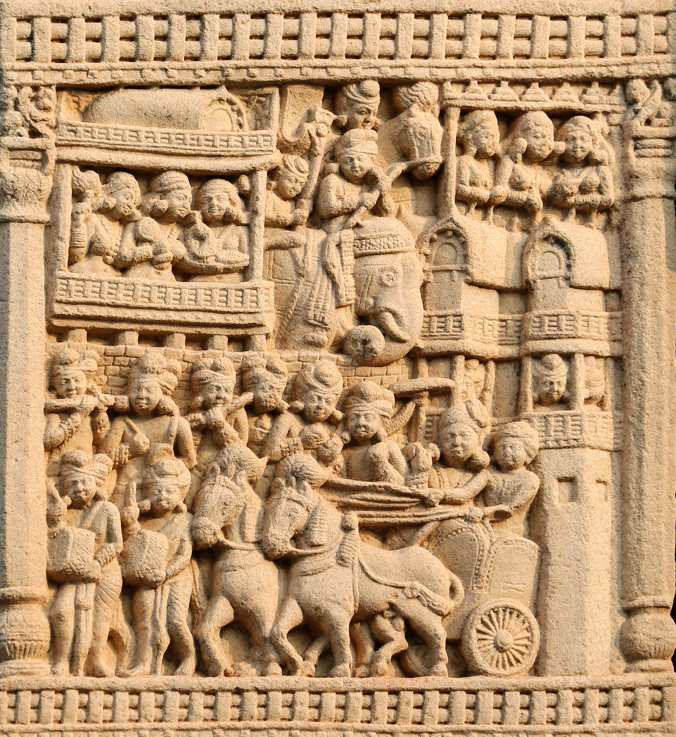 Royal cortege leaving Rajagriha. Marshall p.60